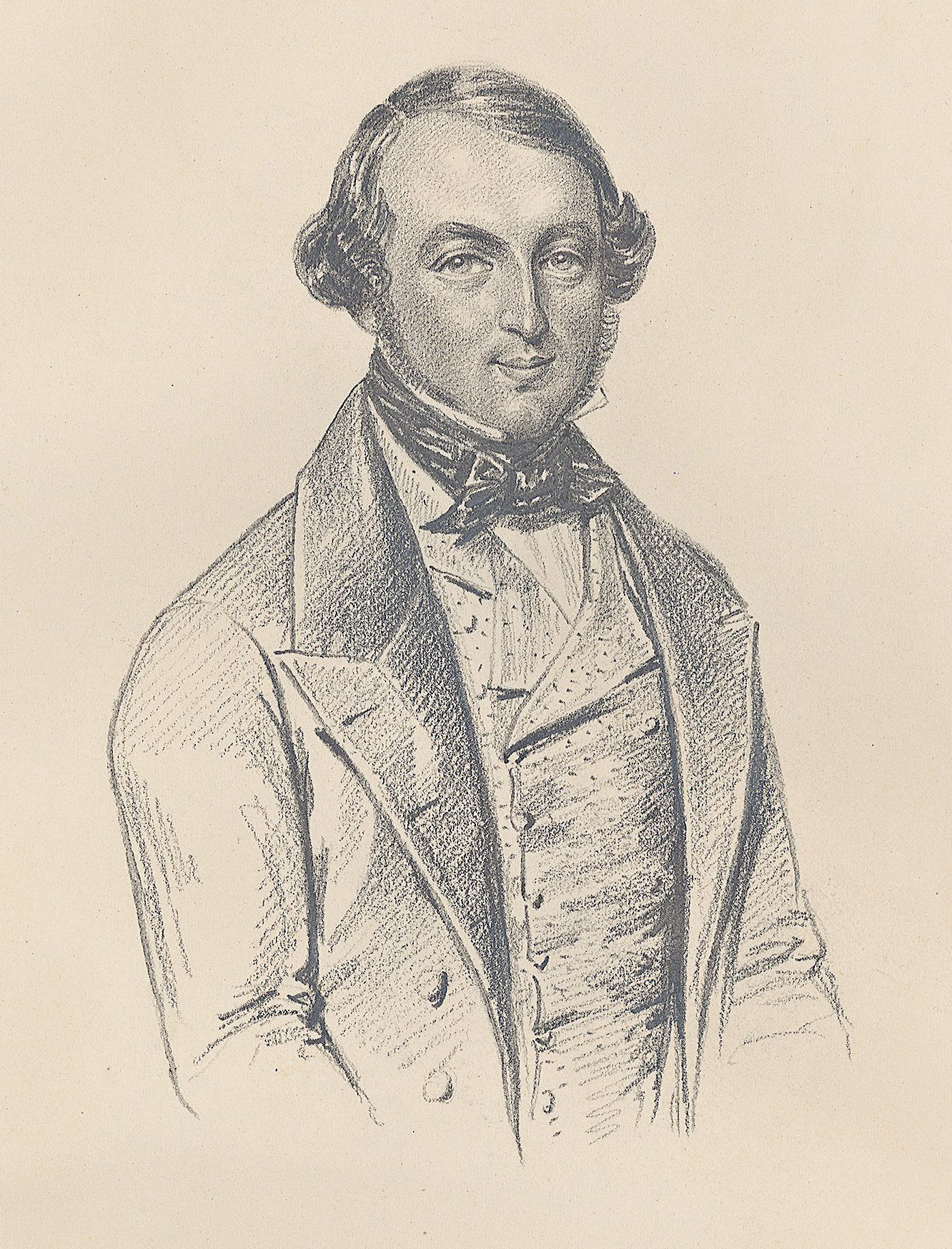 Charles Dickson (1814-1902)